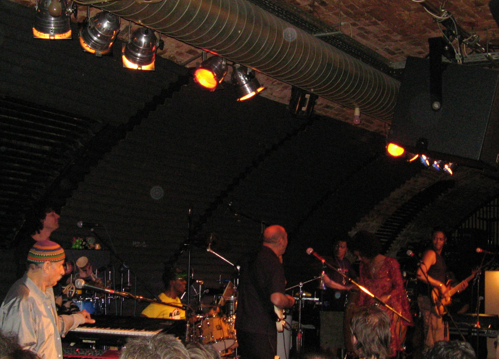 Joe Zawinul & The Zawinul Syndicate. Live in Freiburg i. Br., Germany, at "Jazzhaus" - March 28, 2007